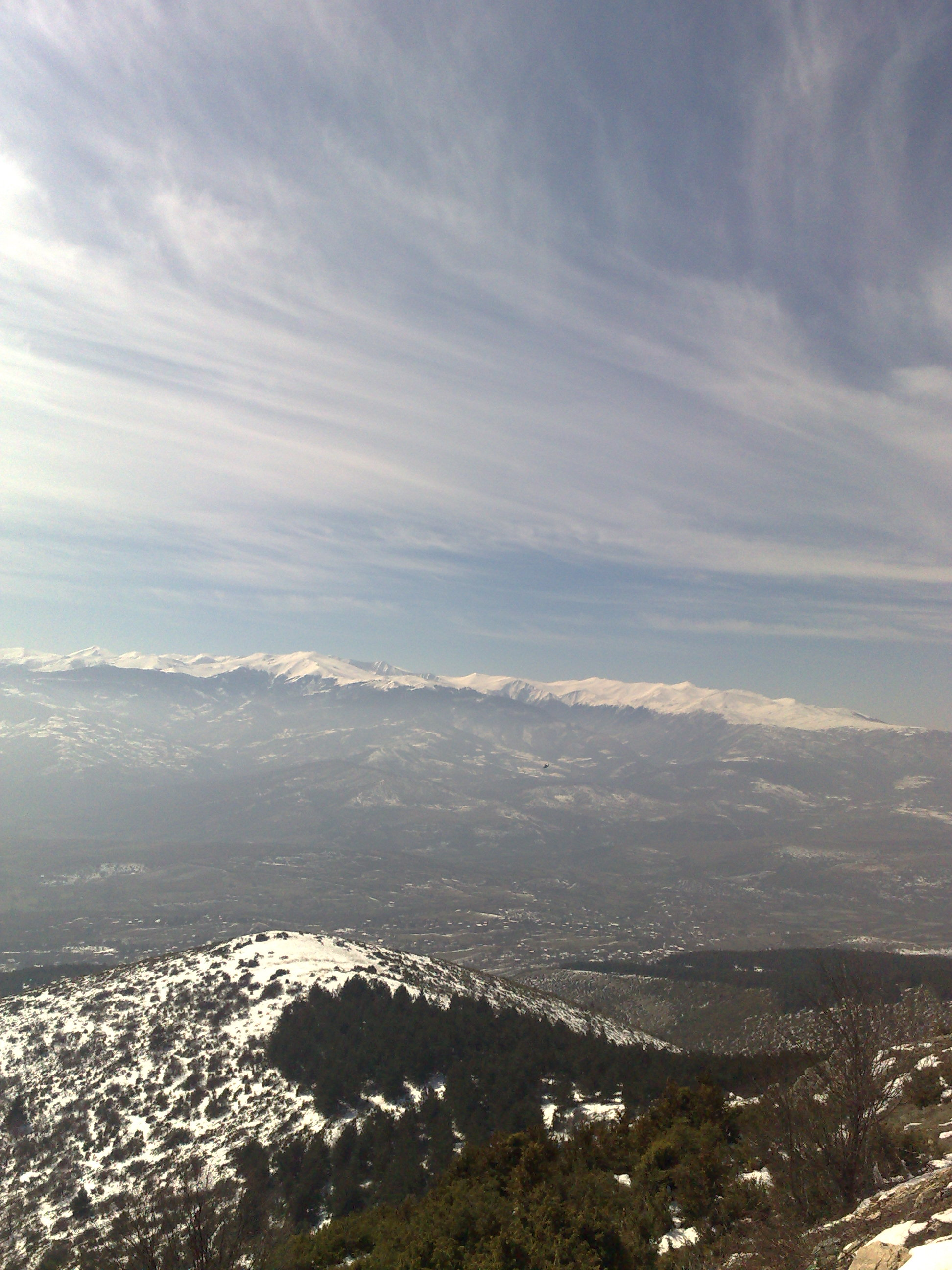 View of the mountain Karadzica from Vodno, Macedonia